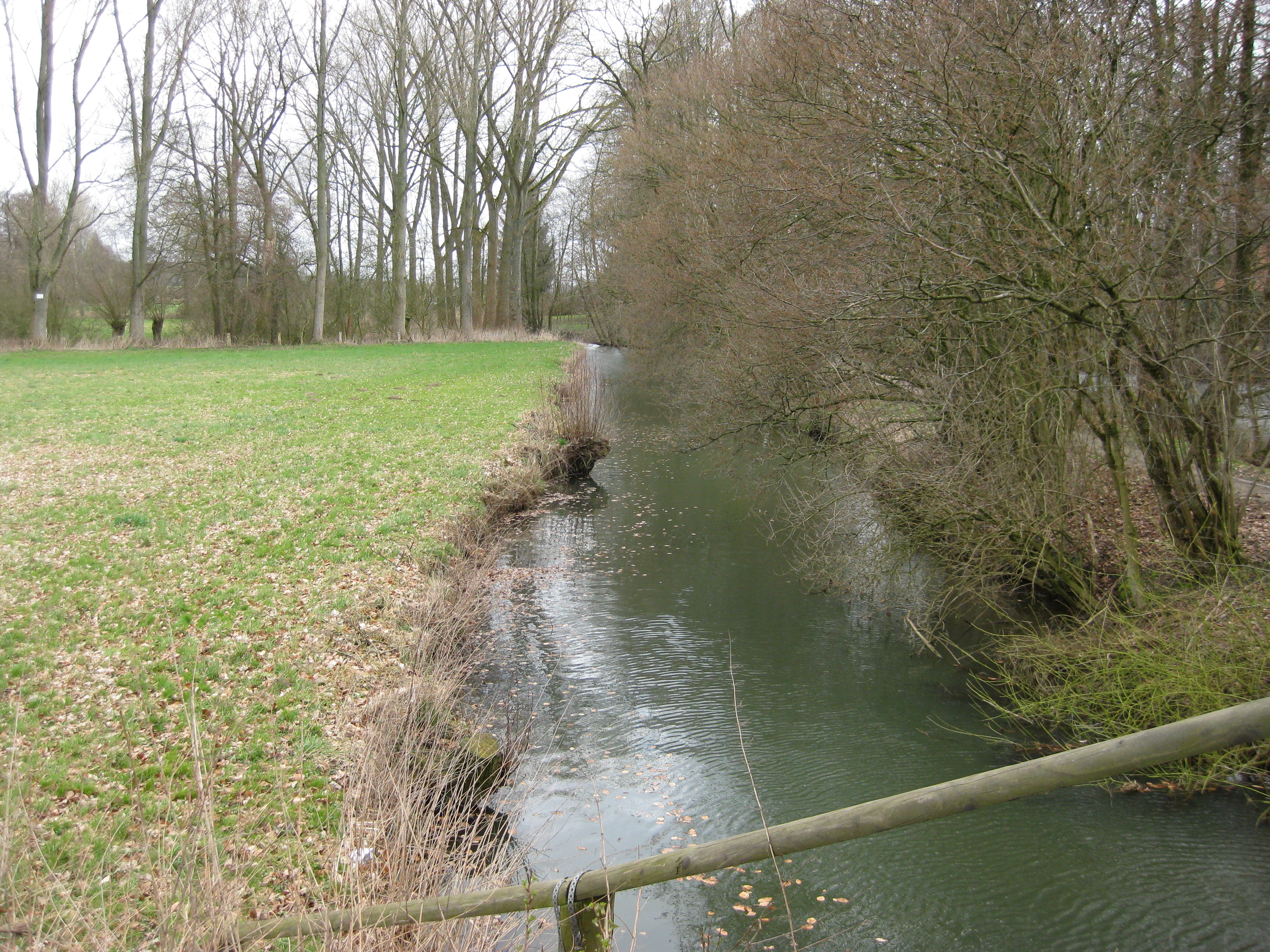 Warmenau in Spenge-Wallenbrück, the creek marks the border between North Rhine-Westphalia (right) and Lower Saxony (left) here